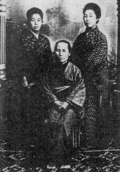 Kane Watanabe (Japanese, *1859, †1945) and her two daughters